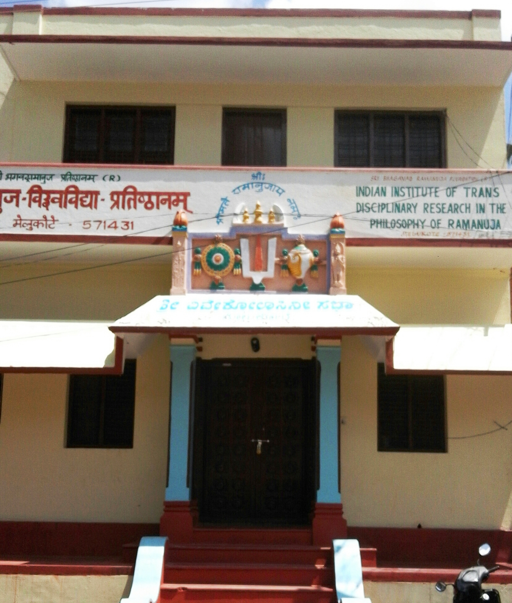 Mandya district, Karnataka state, India.